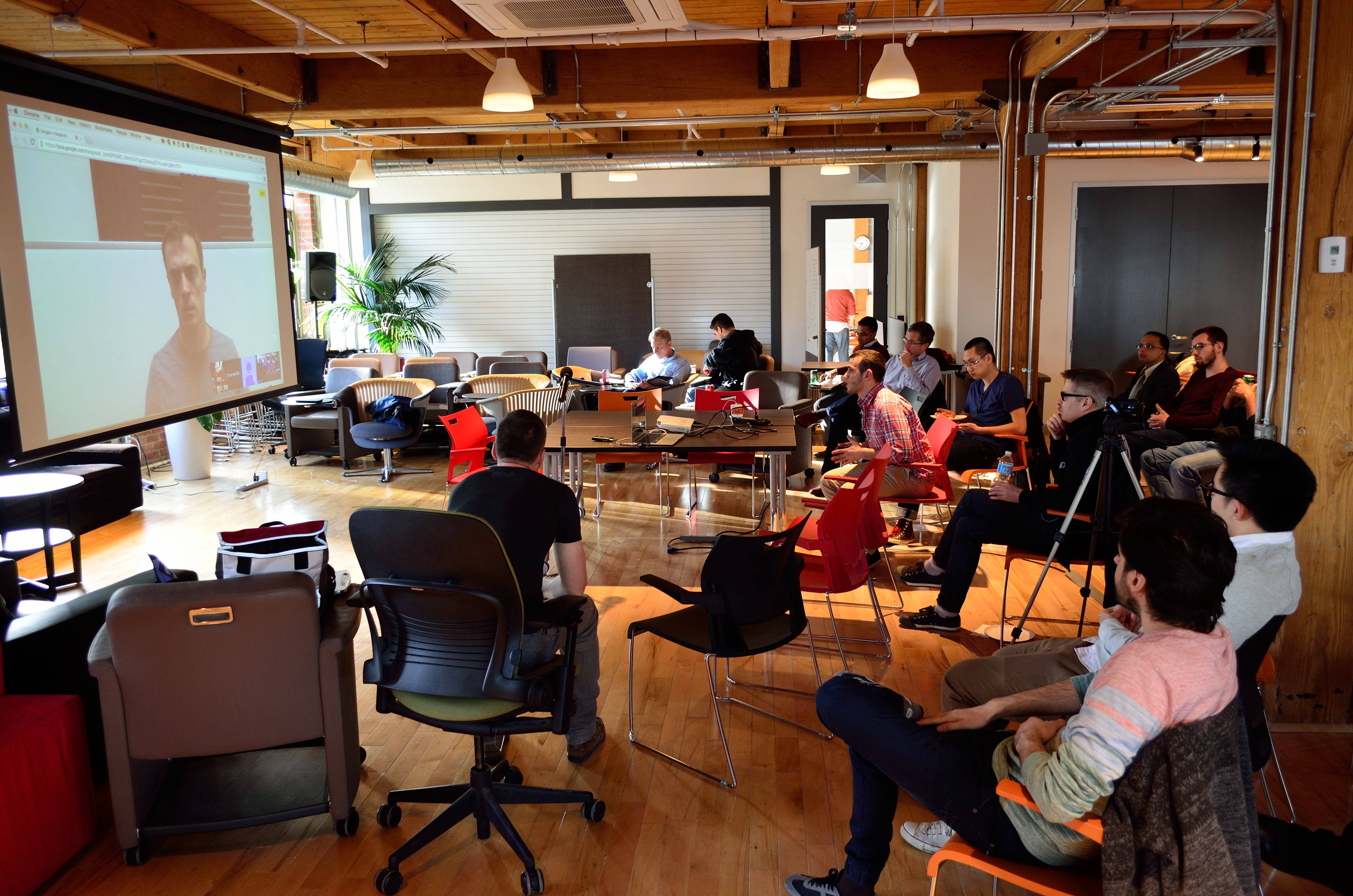 A multi-site (2 offices and a remote speaker = 3 sites in total) video conference meeting facilitated by Google Hangouts.